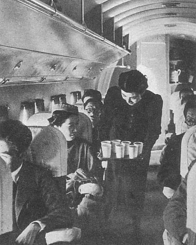 Imperial Japanese Airways flight attendant